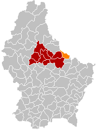 Own edit of Kanton DiekirchLocatie.png